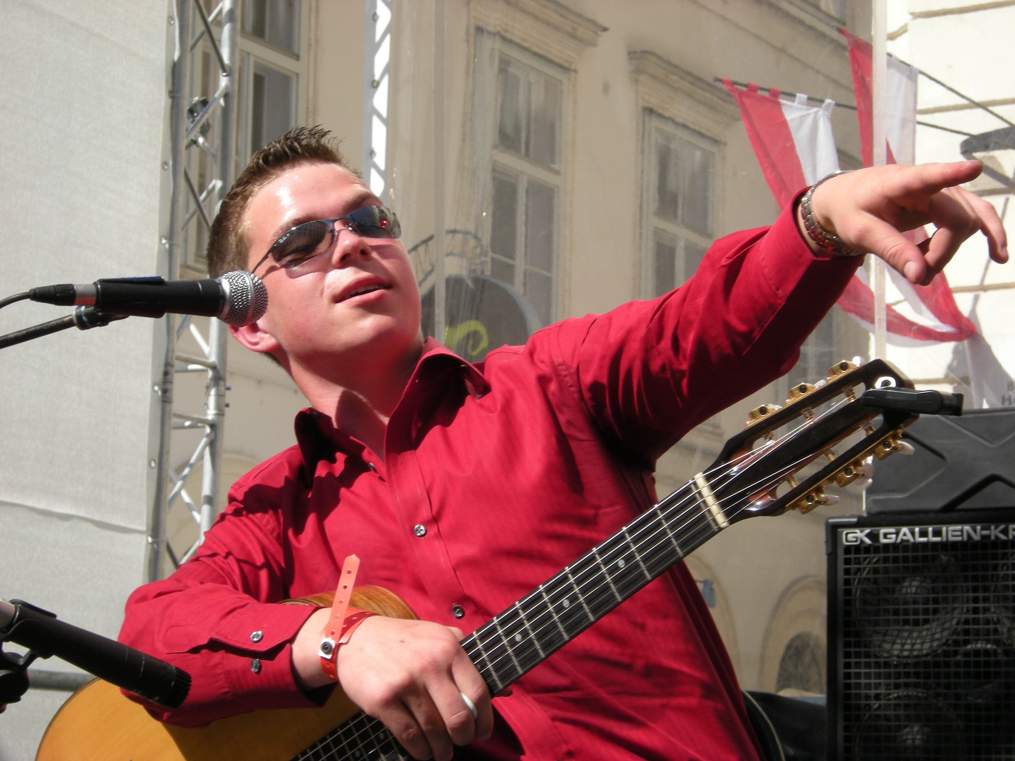 Austrian Diknu Schneeberger Trio performing at Vienna's annual Stadtfest Note: Camera time is set on UTC, which is local time -2.